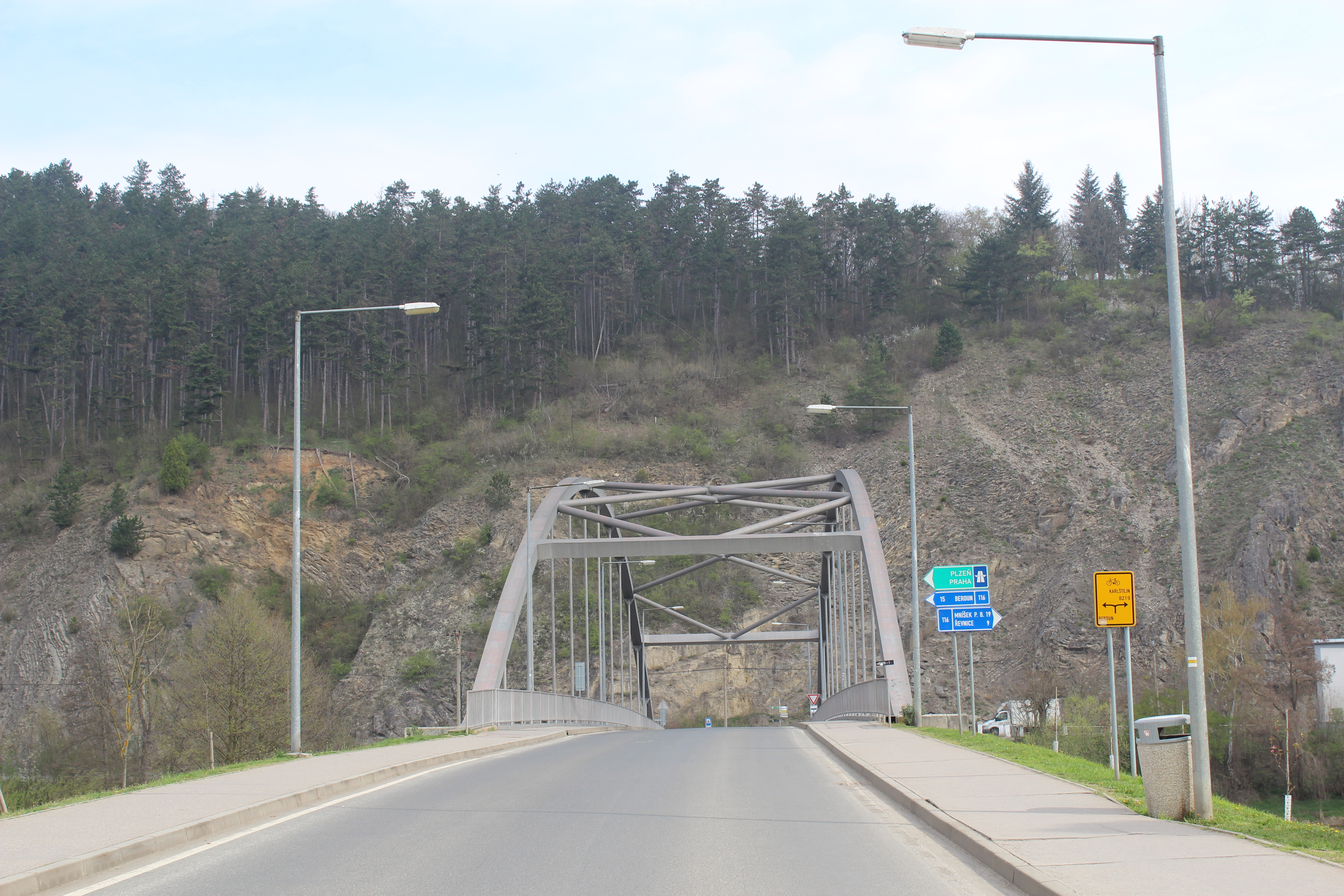 Bridge in Karlštejn